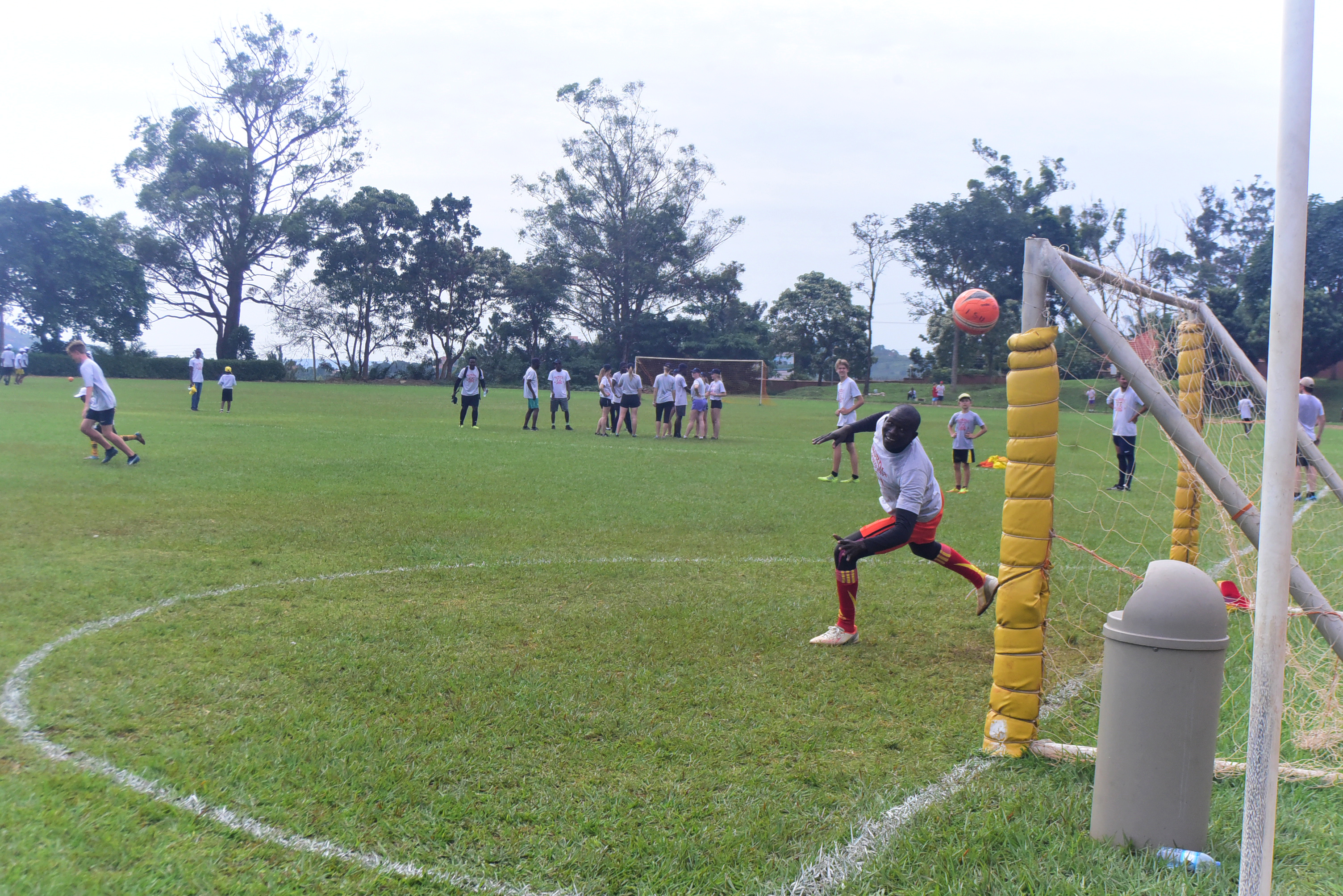 This is an image with the theme "Play" from: Uganda